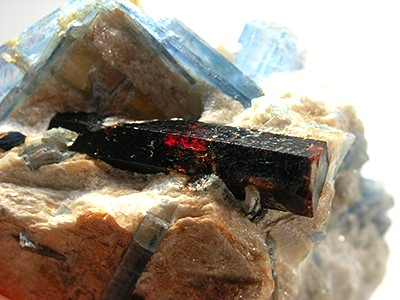 Kyanite, Staurolite Locality: Pizzo del Platteo, Minor Valley, Bernina pass area, Engadin, Grischun (Grisons; Graubünden), Switzerland (Locality at ) Size: small cabinet, 7.7 x 4.1 x 2.2 cm Staurolite with Kyanite A superb locality piece consisting of a combination of terminated, translucent to transparent, sky blue kyanite crystals to 4.5 cm , accenting deep reddish-brown staurolite crystals to 2.75 cm. They have grown in a matrix of sugary white, massive quartz. The stuarolite is especially fine, for the form and translucency of the crystal. All this, plus, coming from an old European alpine vein! 7.7 x 4.1 x 2.2 cm